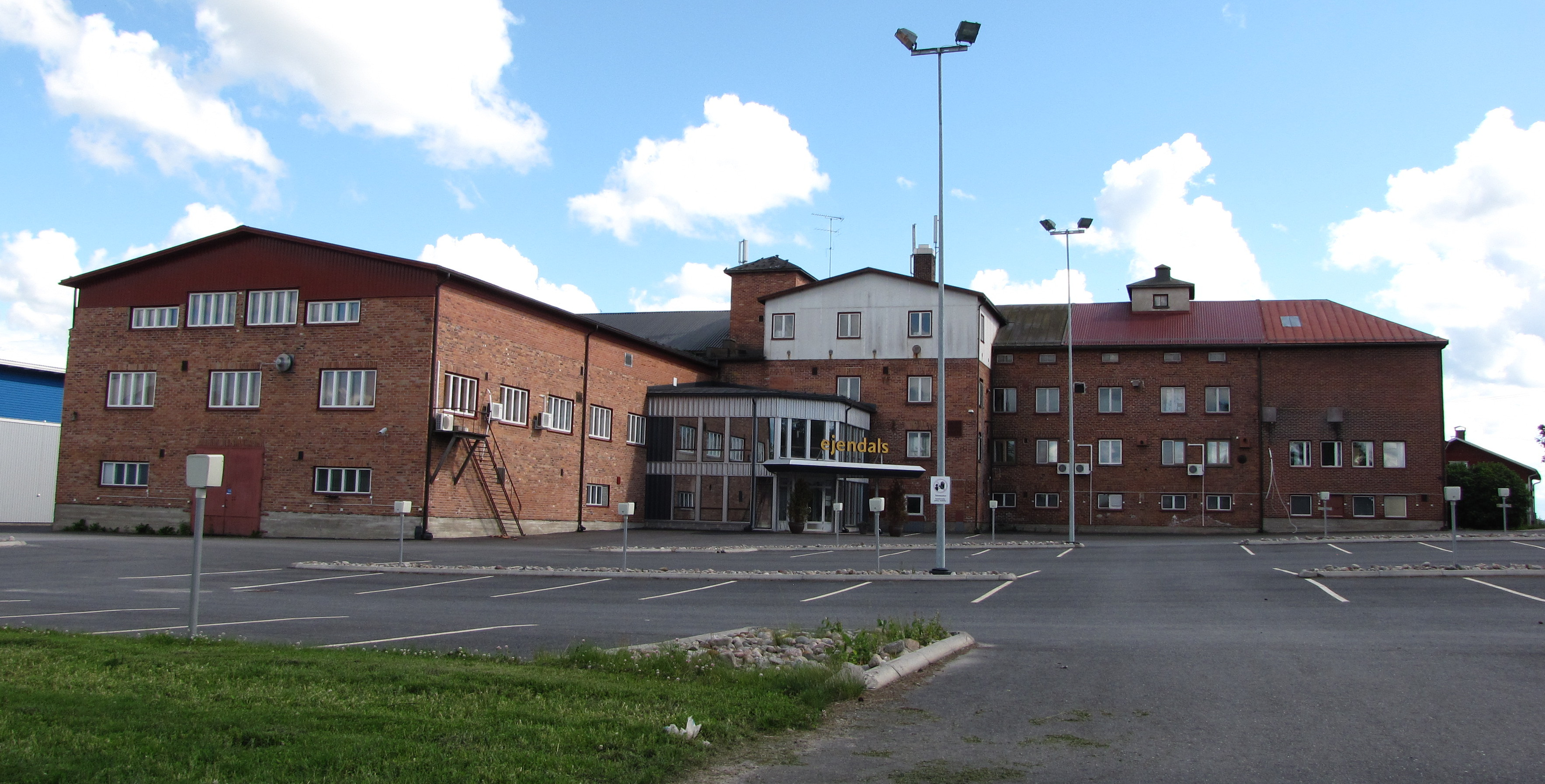 The factory of the shoemaker Jalas, part of the Ejendals corporation, in Jokipii village, Jalasjärvi, Finland.